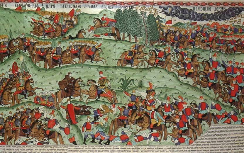 The Battle of Kulikovo. A large-scale hand-drawn lubok (ink, tempera, gold). On display in the State Historical Museum.